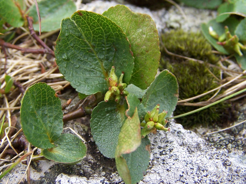 Salix herbacea (pl. wierzba zielna), habitat: Tatra Mountains, Granaty